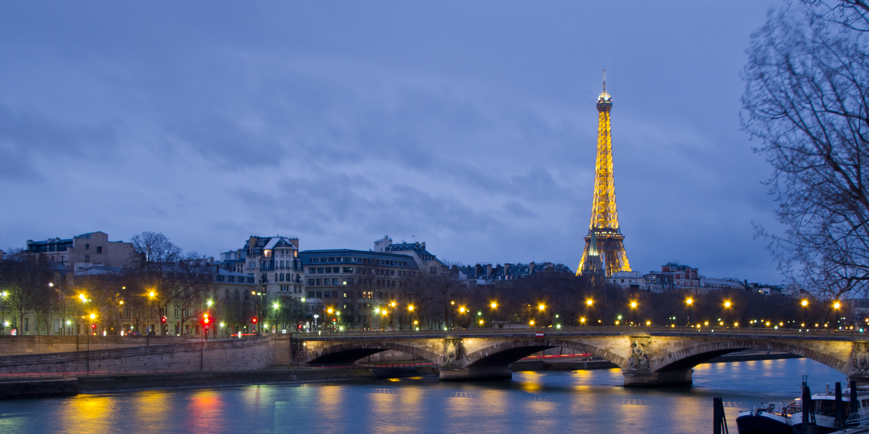 Night view of the Pont des Invalides and the Eiffel Tower, Paris, France.